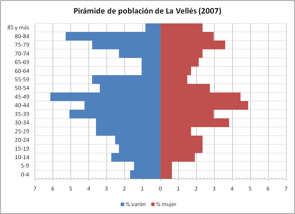 La Vellés (Spain) population pyramid 2006. Self-made chart with data obtained from Spain's Instituto Nacional de Estadística